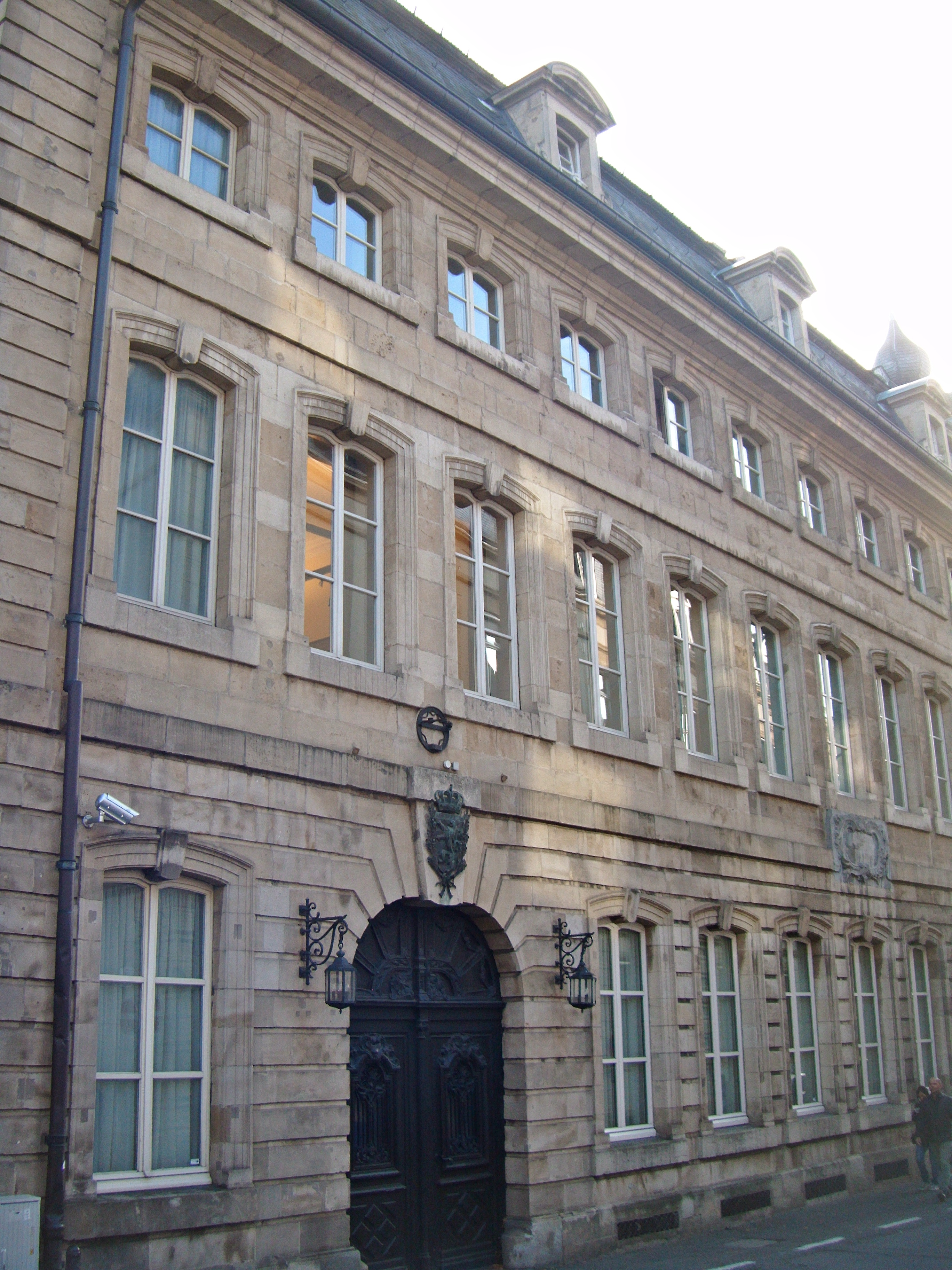 Luxemburg Refugium St. Maximin, Hauptfassade